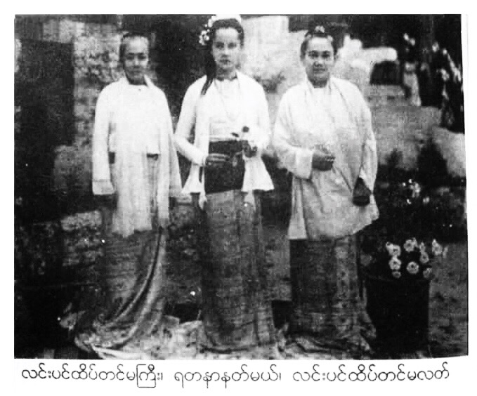 Hteiktin Ma Gyi, Yadana Nat-Mei and her mother Hteiktin Ma Lat